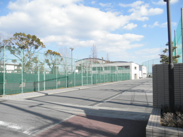 Komatsushima high school front gate